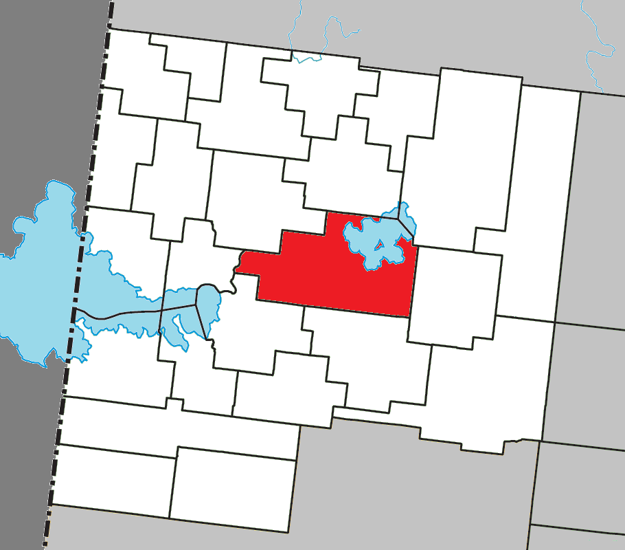 Location of Macamic, Quebec within Abitibi-Ouest Regional County Municipality.